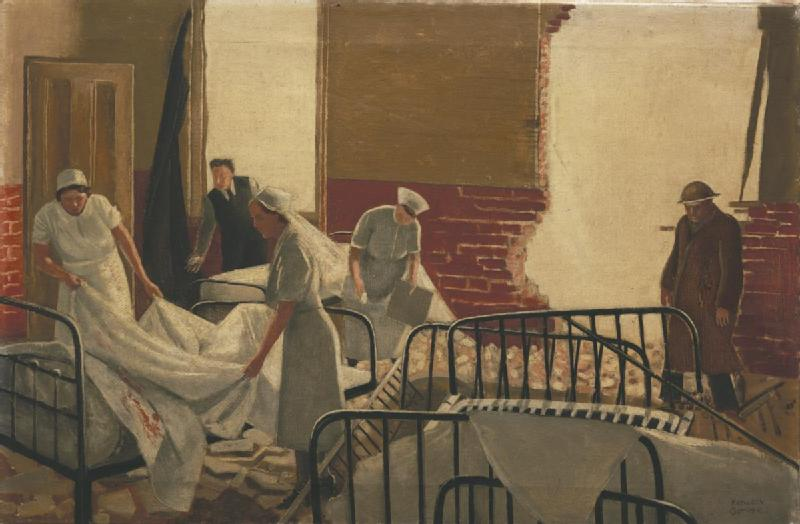 A Bombed Hospital Ward image: two nurses strip a bed with blood-stained sheets in a ward with a large hole blown through the wall. An ARP warden stands near the hole surveying the rubble-strewn floor and the pile of mangled bedsteads on the right. In the background a third nurse and a doctor look down towards something obscured on the floor.